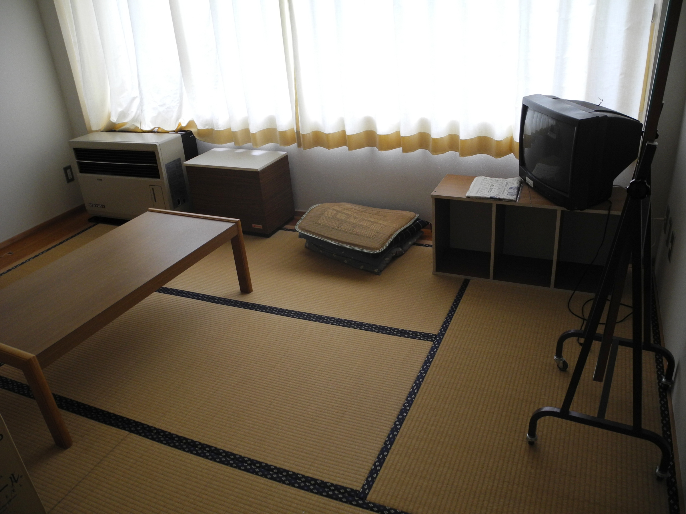 Tatami room (used as a break room for teachers), 1st floor of Hitane Elementary School. Shimo-Hitane, Chokai, Yurihonjo, Akita, Japan.